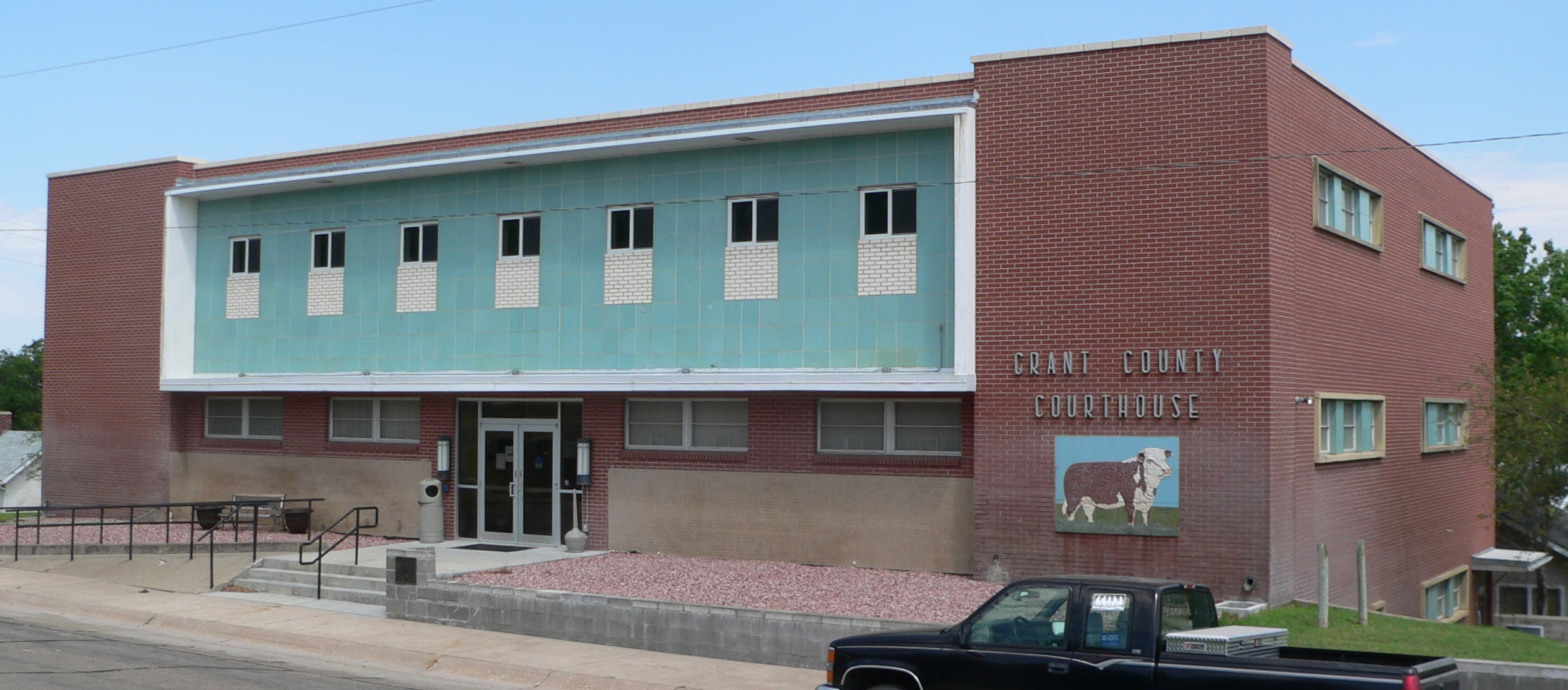 Grant County courthouse in Hyannis, Nebraska; seen from the northeast. The date 1957 appears beside the Hereford depicted on the courthouse's north wall.